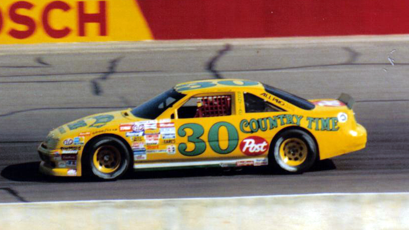 The Chuck Rider owned Country Time Pontiac of Michael Waltrip finished 9th in the 1989 Checker Autoworks 500.